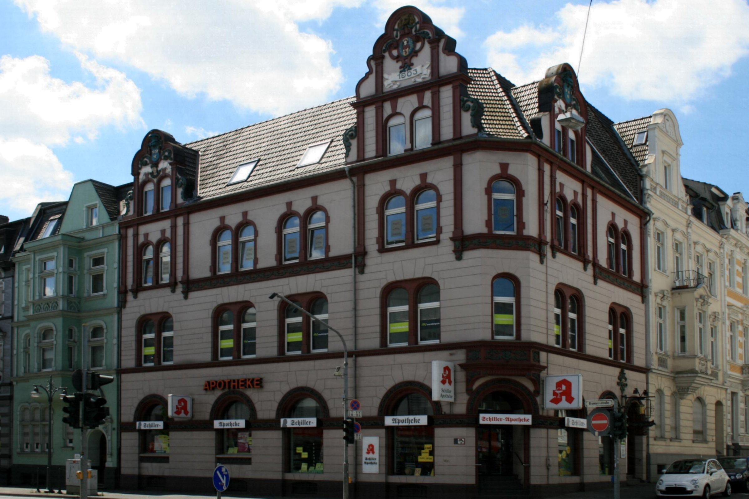 Cultural heritage monument No. K 051 in Mönchengladbach